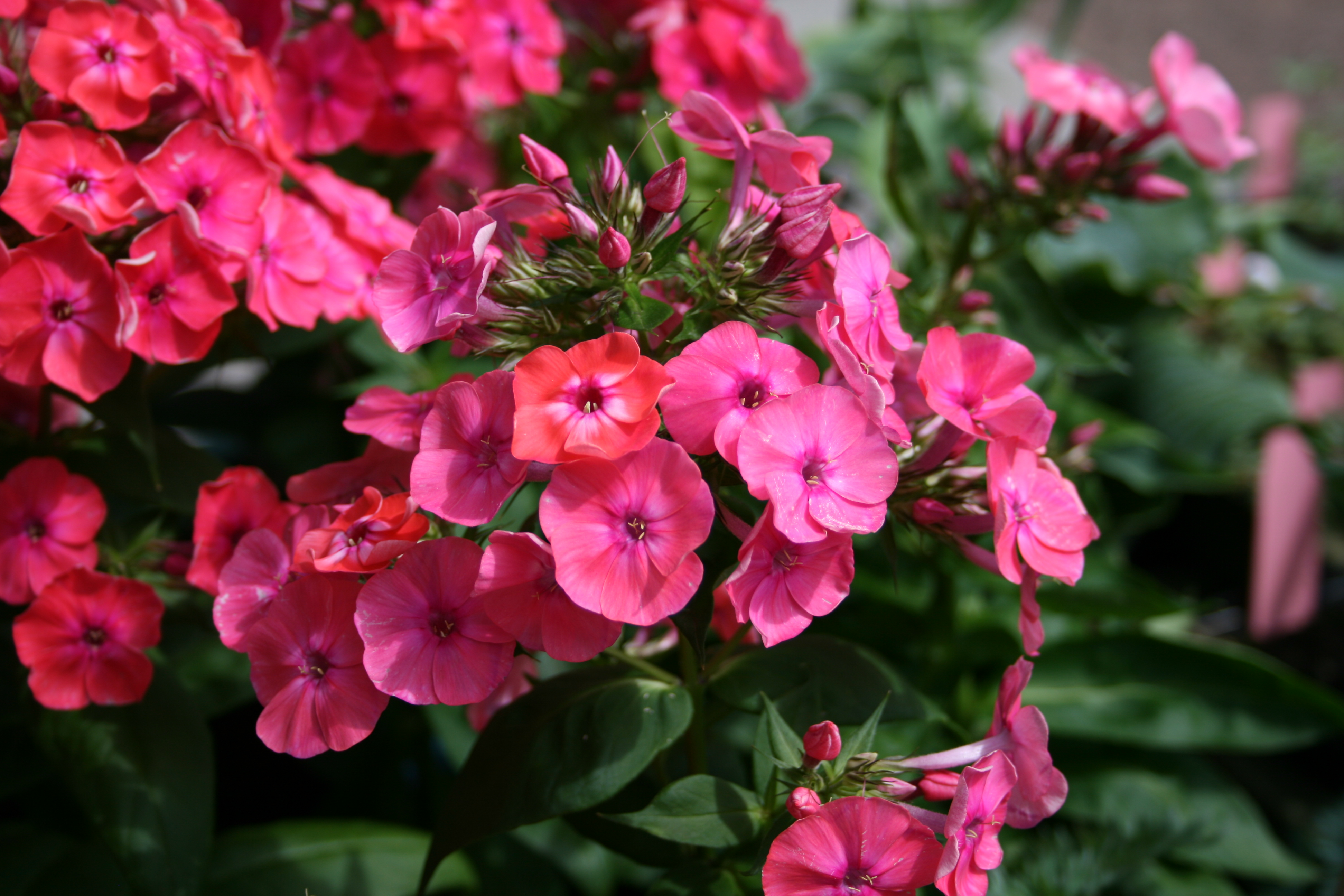 Phlox paniculata 'Coral Flame'